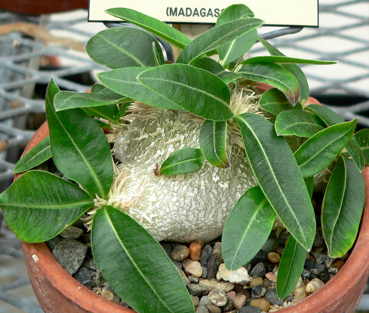 Photo of Pachypodium brevicaule at the University of California Botanical Garden